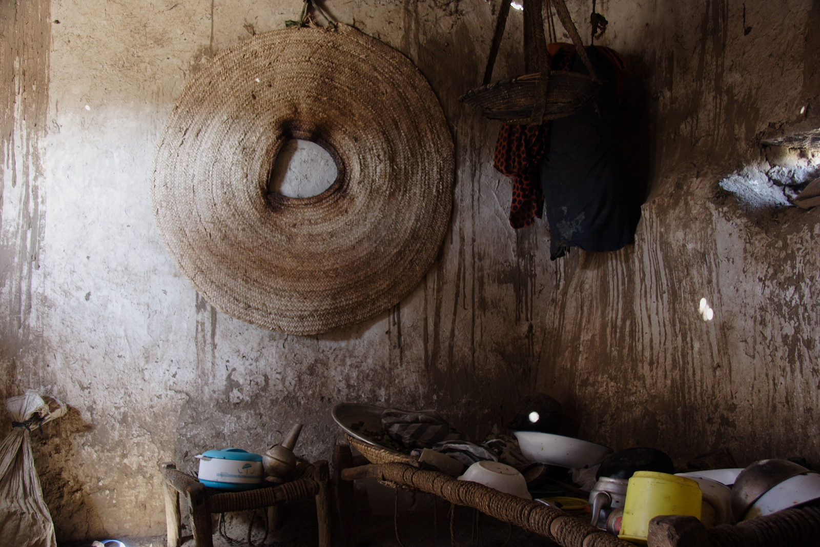 Nutu' hanging on the kitchen wall in the homestead of Klilabiah on Sherari Island in Dar al-Manasir, Northern Sudan.